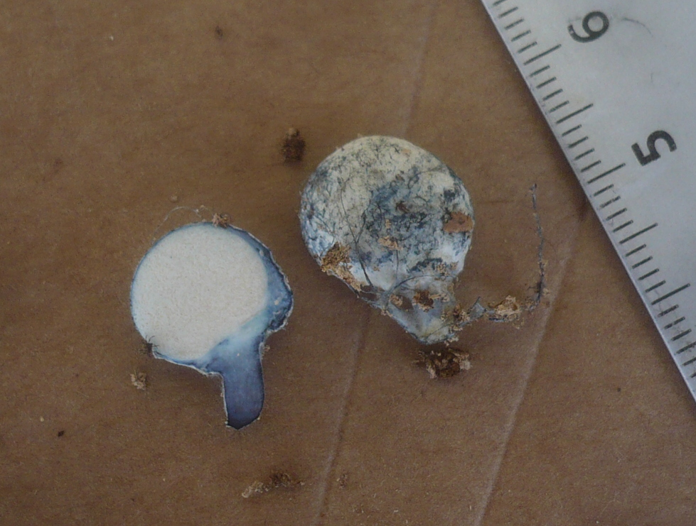 Chamonixia caespitosa Rolland Image location: Bois de la Joux Derriere, Prénovel, Jura, France For more information about this, see the observation page at Mushroom Observer.